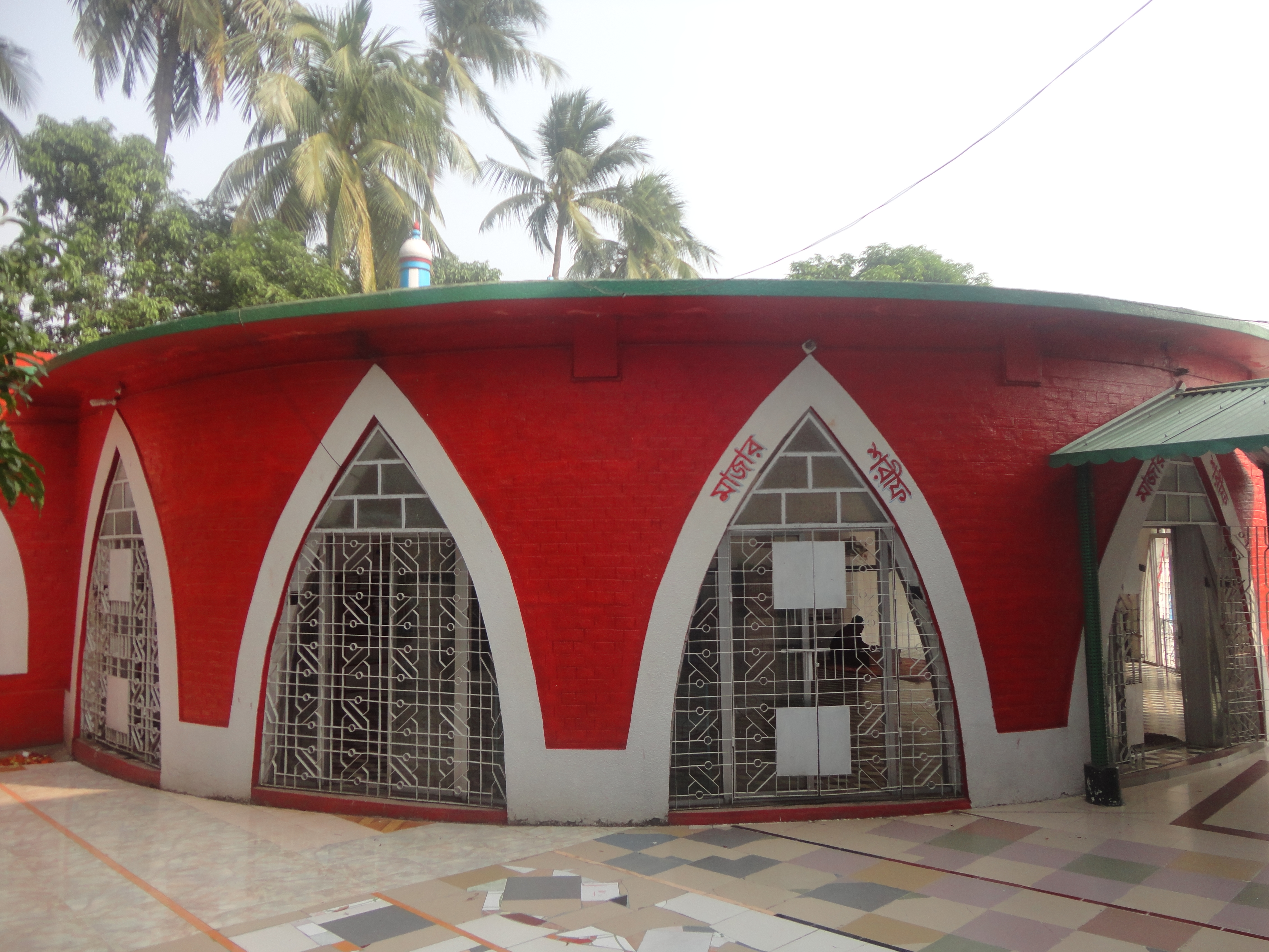 শাহ মখদুমের মাজারের বাইরের অংশ(পশ্চিম দিক)